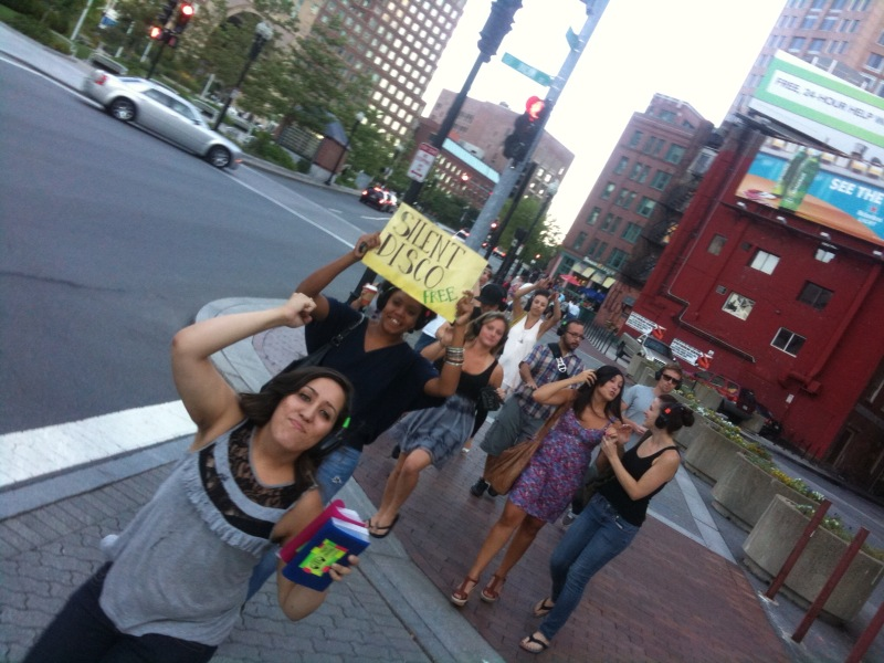 Silent Disco Mobile Clubbing by Silent Storm Sound System